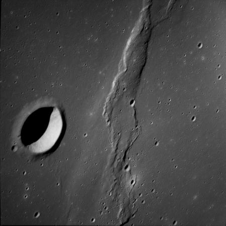 Suess F satellite crater